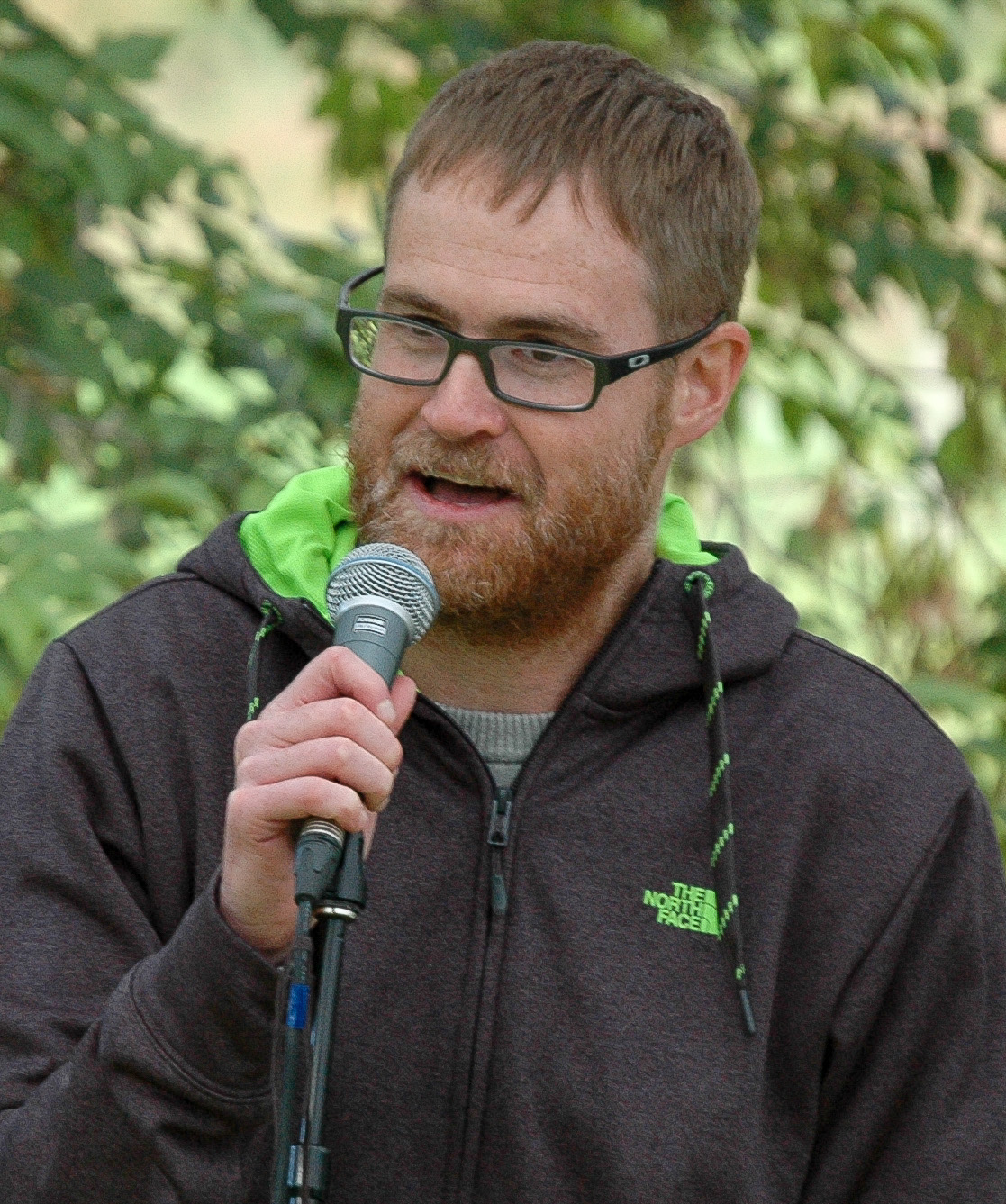 Craig Davidson at the Eden Mills Writers Festival in 2016